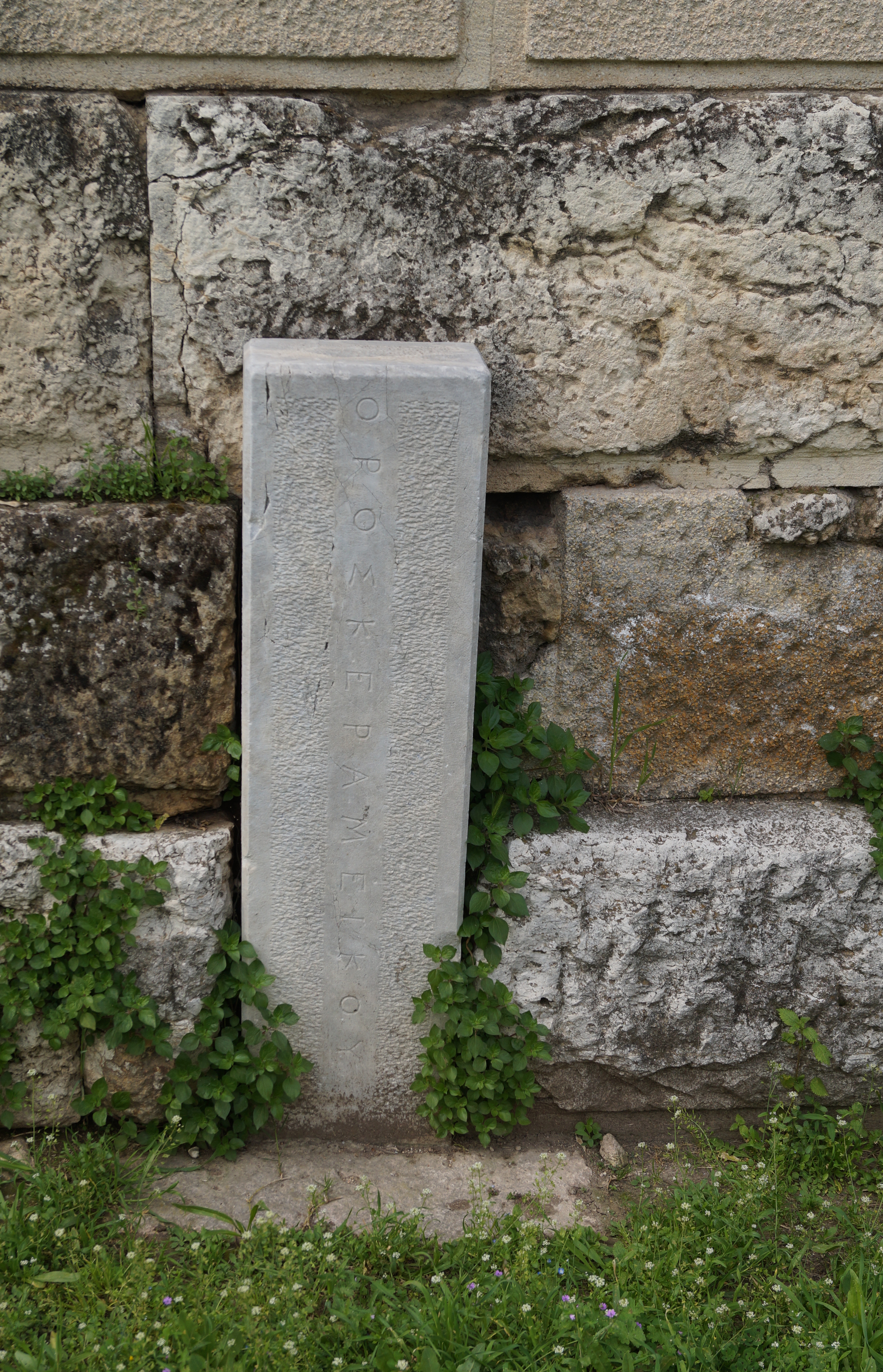 Kerameikos, Athens, Greece: Boundary stone of Kerameikos street with inscription in front of the Tomb of the Lacedaemonians (IG II² 2618). One of altogether six boundary stones of Kerameikos street to date found. Reading: ΟΡΟΣ ΚΕΡΑΜΕΙΚΟΥ = Boundary of Kerameikos (350-300 BC)